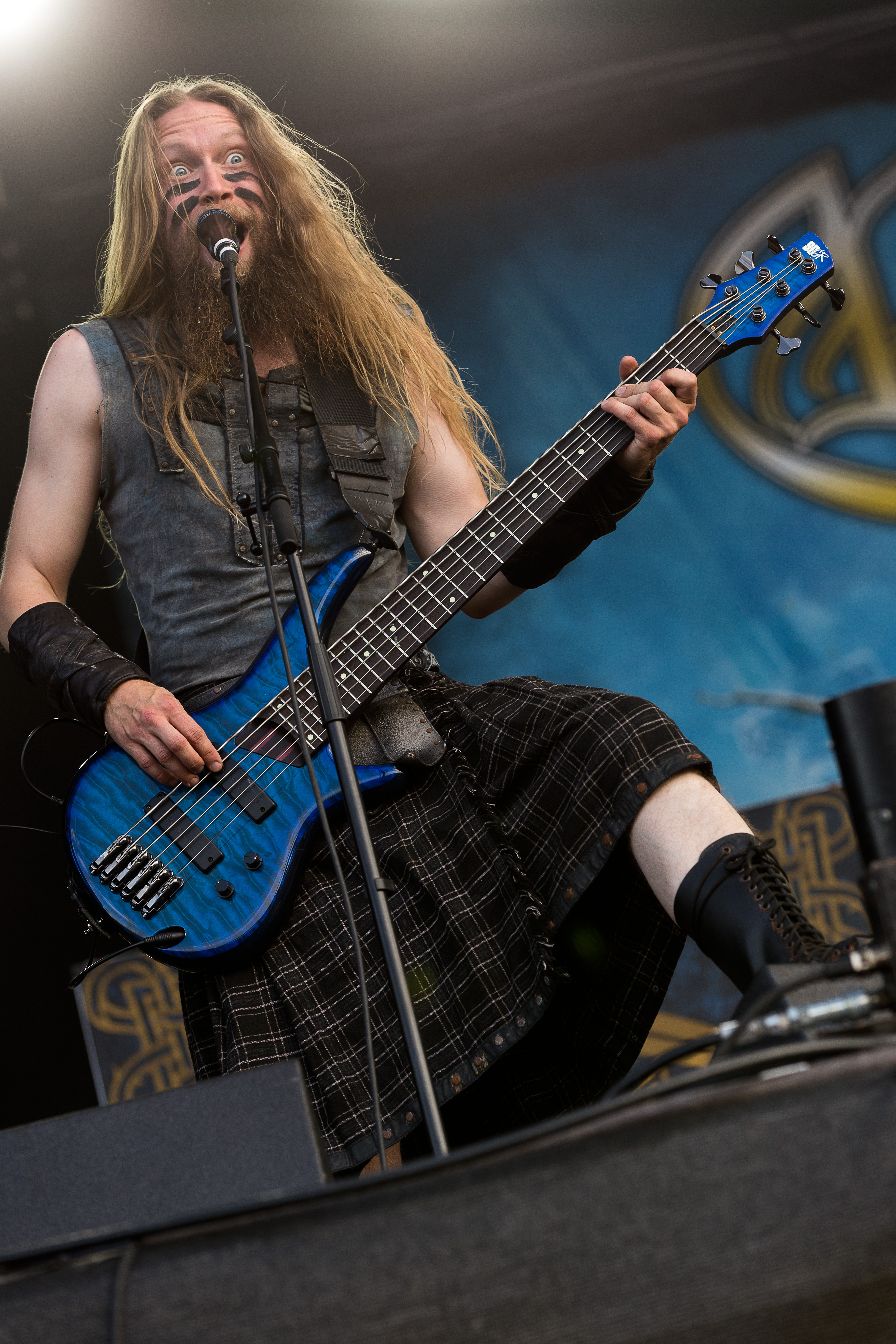 The Finnish folk metal band Ensiferum at the Rockharz Open Air 2016 in Ballenstedt/Germany.